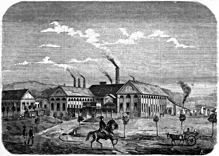 Ózd Metallurgical Works in 1864